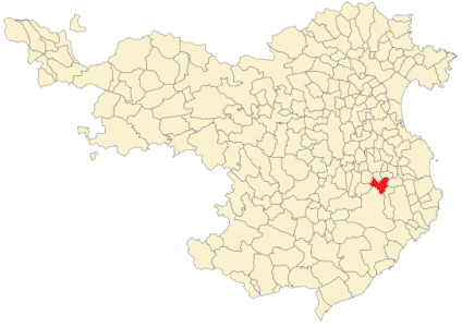 Corçà